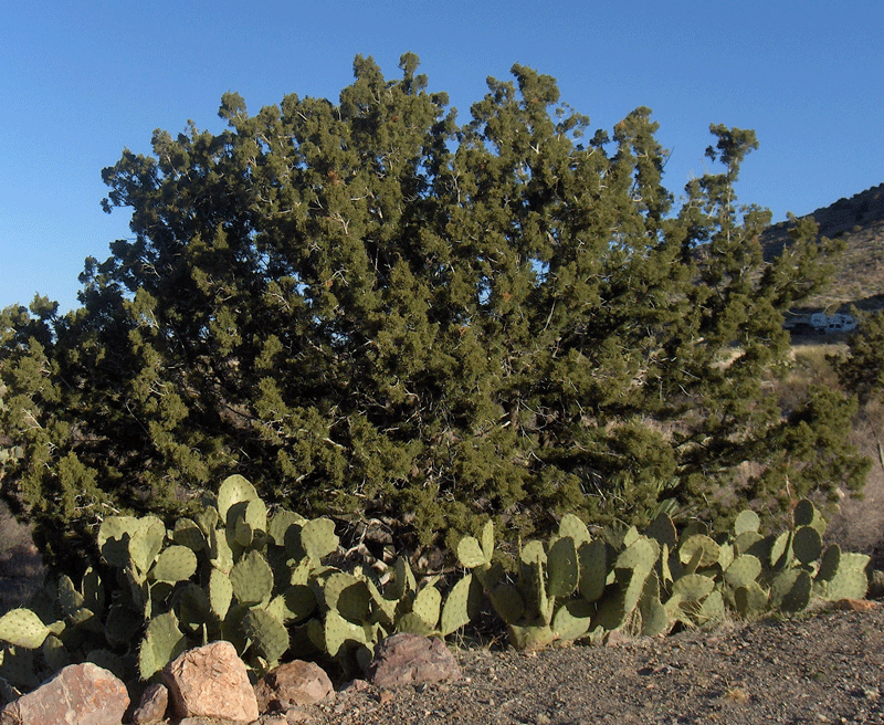 One-seed Juniper & Eng.-P.P